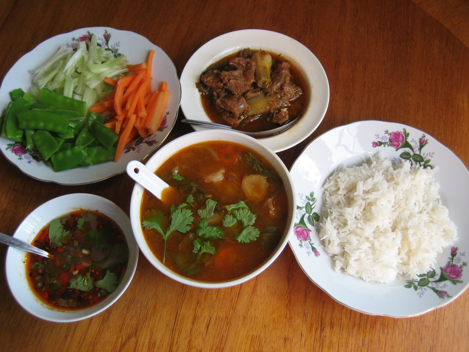 A typical Burmese meal: rice with a mè hnat (stewed beef), chinyay hin (hot & sour soup), ngapi yay-jo (thin pickled fish sauce) and to za ya (raw or scalded vegetables to go with it).